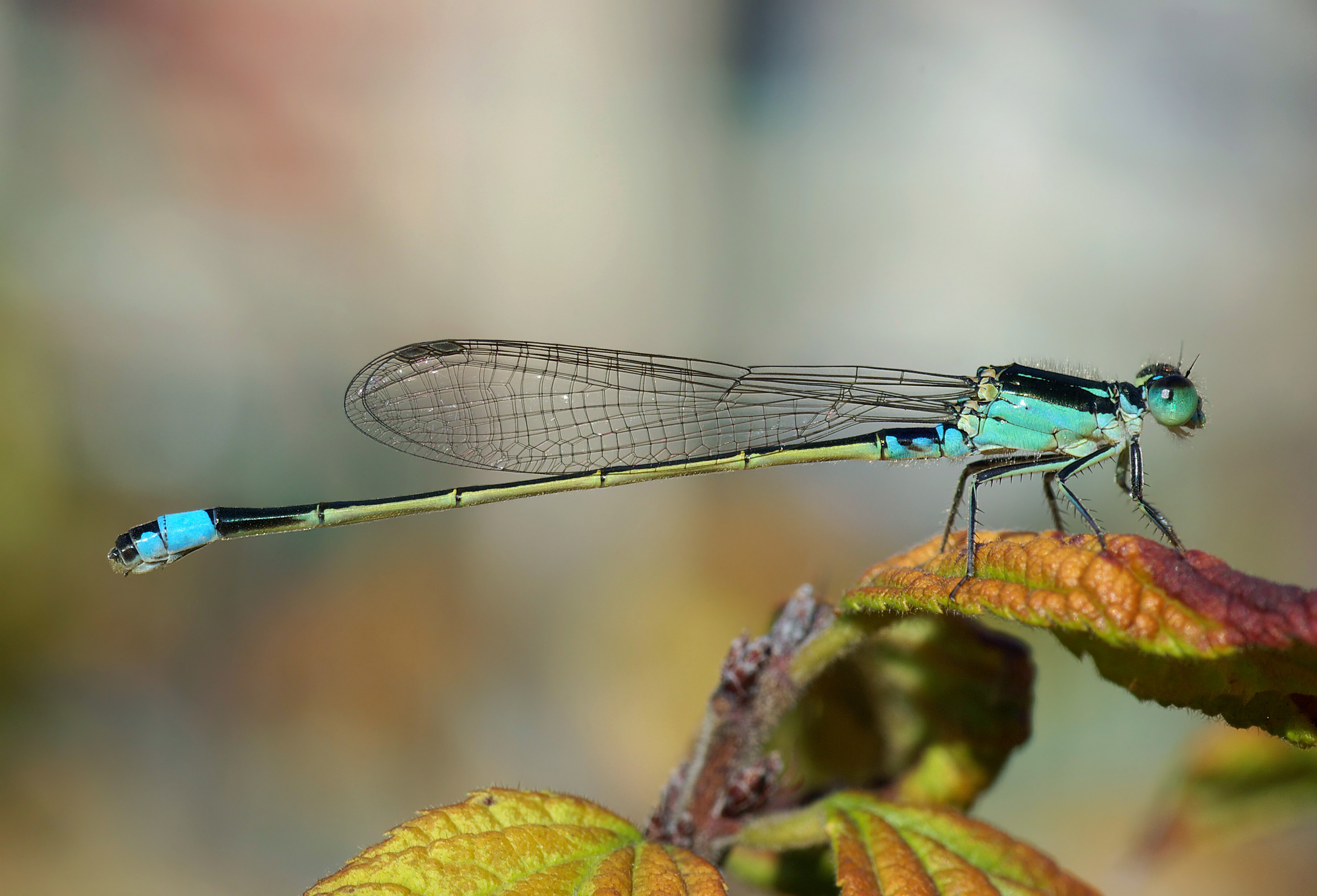 Common Bluetail, a widespread damselfly in Africa, the Middle East, Southern and Eastern Asia.